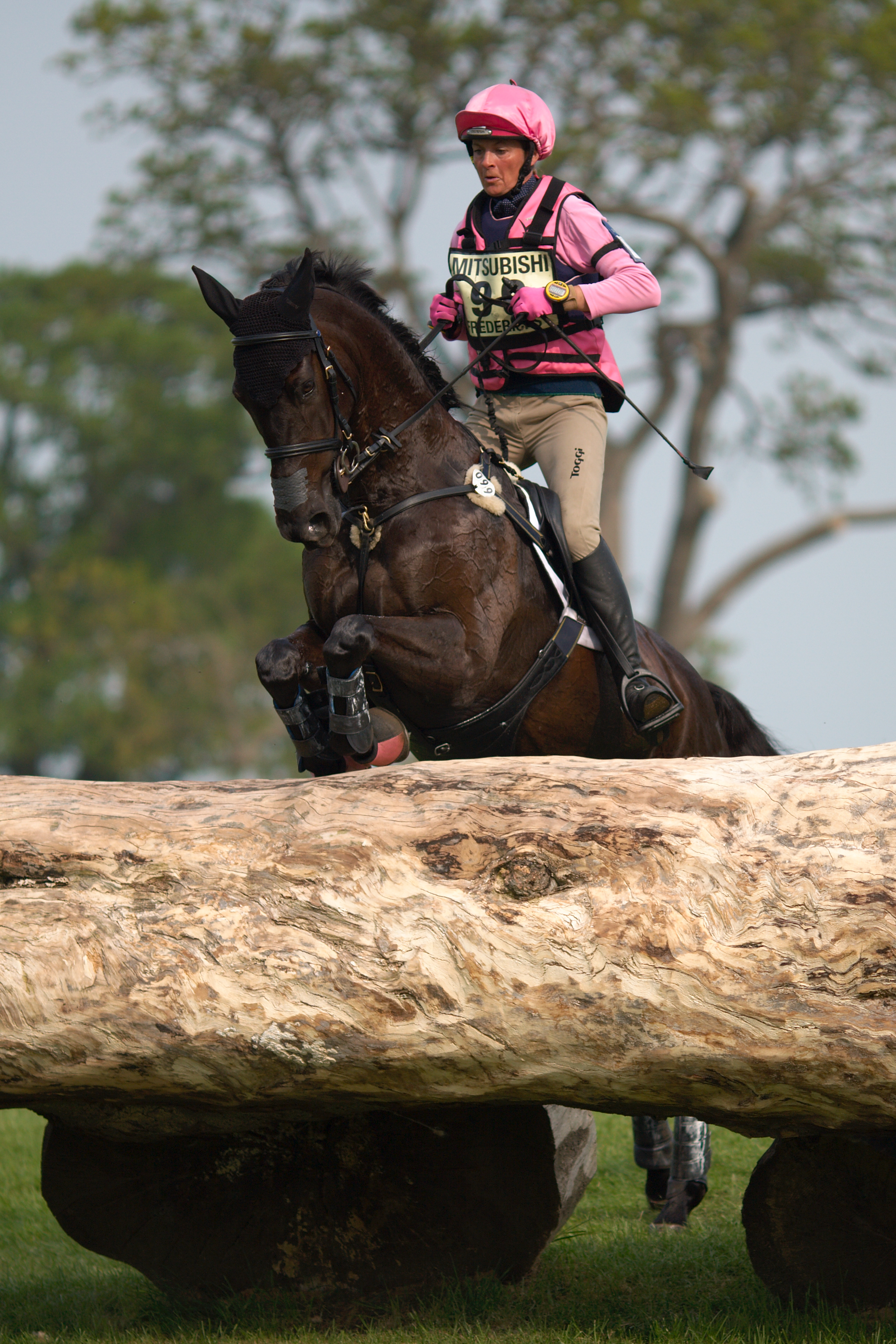 Lucinda Fredericks and Prada at the Quarry during the cross-country phase of Badminton Horse Trials 2011.